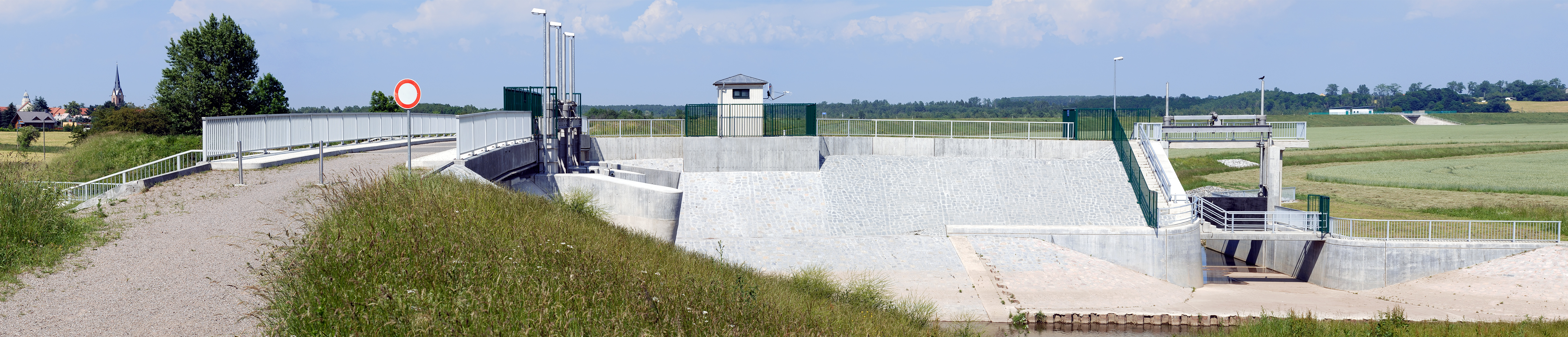 This image shows the barrage of the flood detention reservoir Regis-Serbitz, Germany. It is a four segment panoramic image.